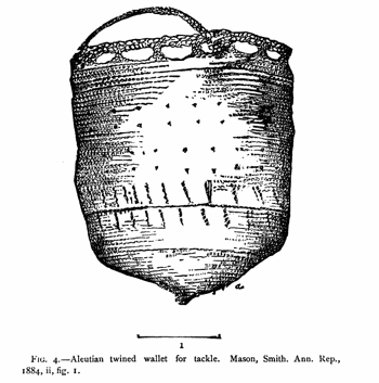 A plate of a woven "Aleutian Wallet" that would be carried on the belt or otherwise on the hip.